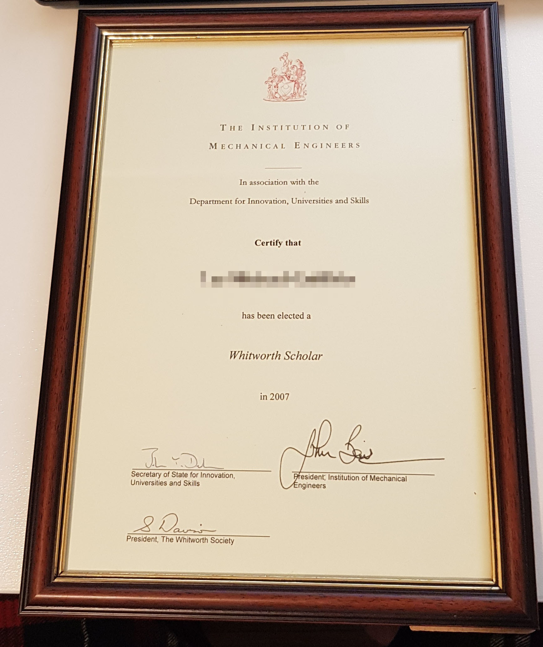 An example of a certificate when granted after being elected Whitworth Scholar